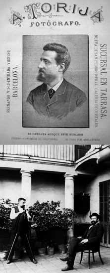 A la imatge de dalt hi veiem el cartell publicitari del taller de Torija i, a la imatge de sota, el mateix Torija fent una fotografia a Vicenç Cusó.